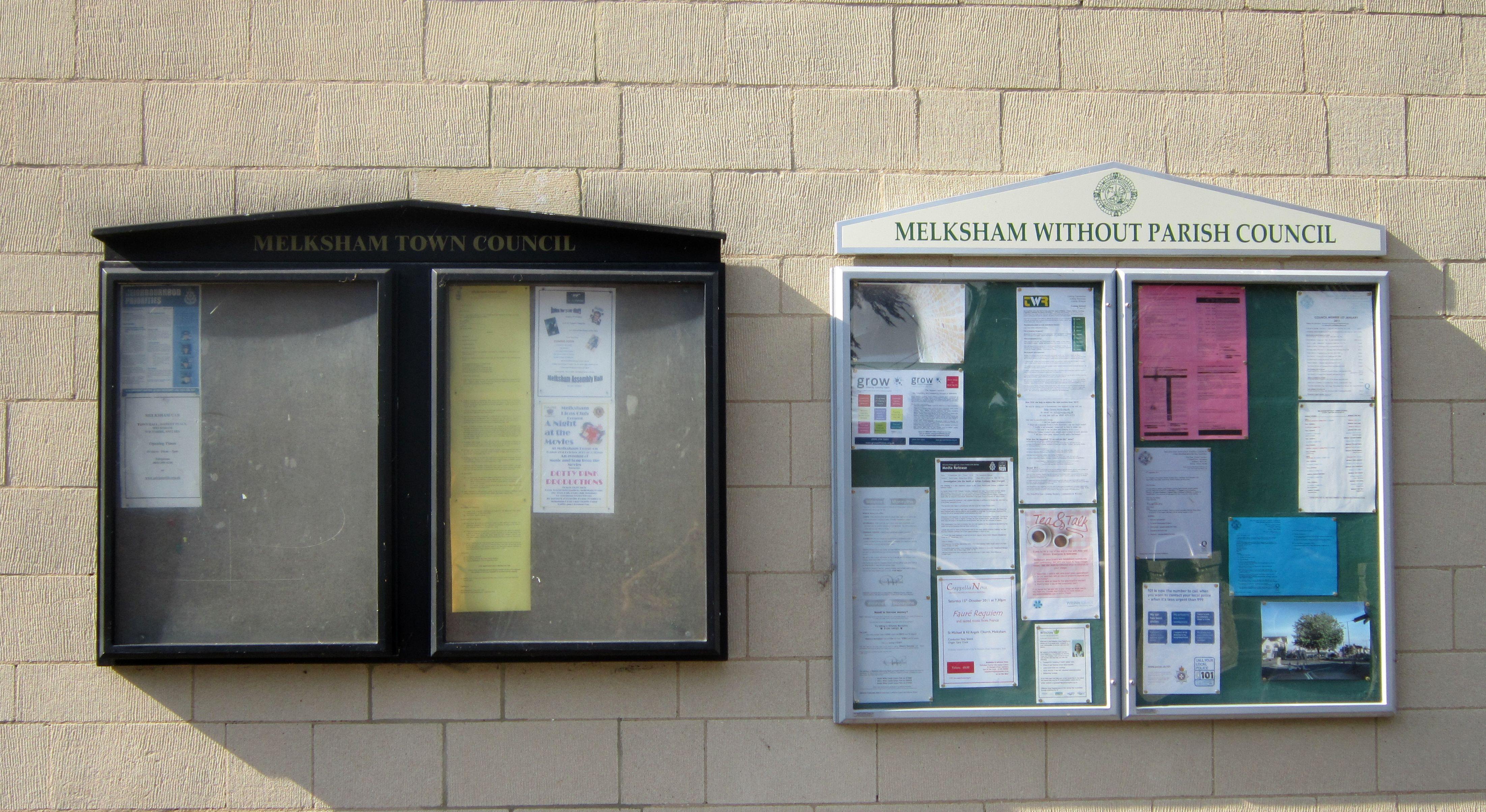 The councils of Melksham and Melksham Without have a noticeboard each